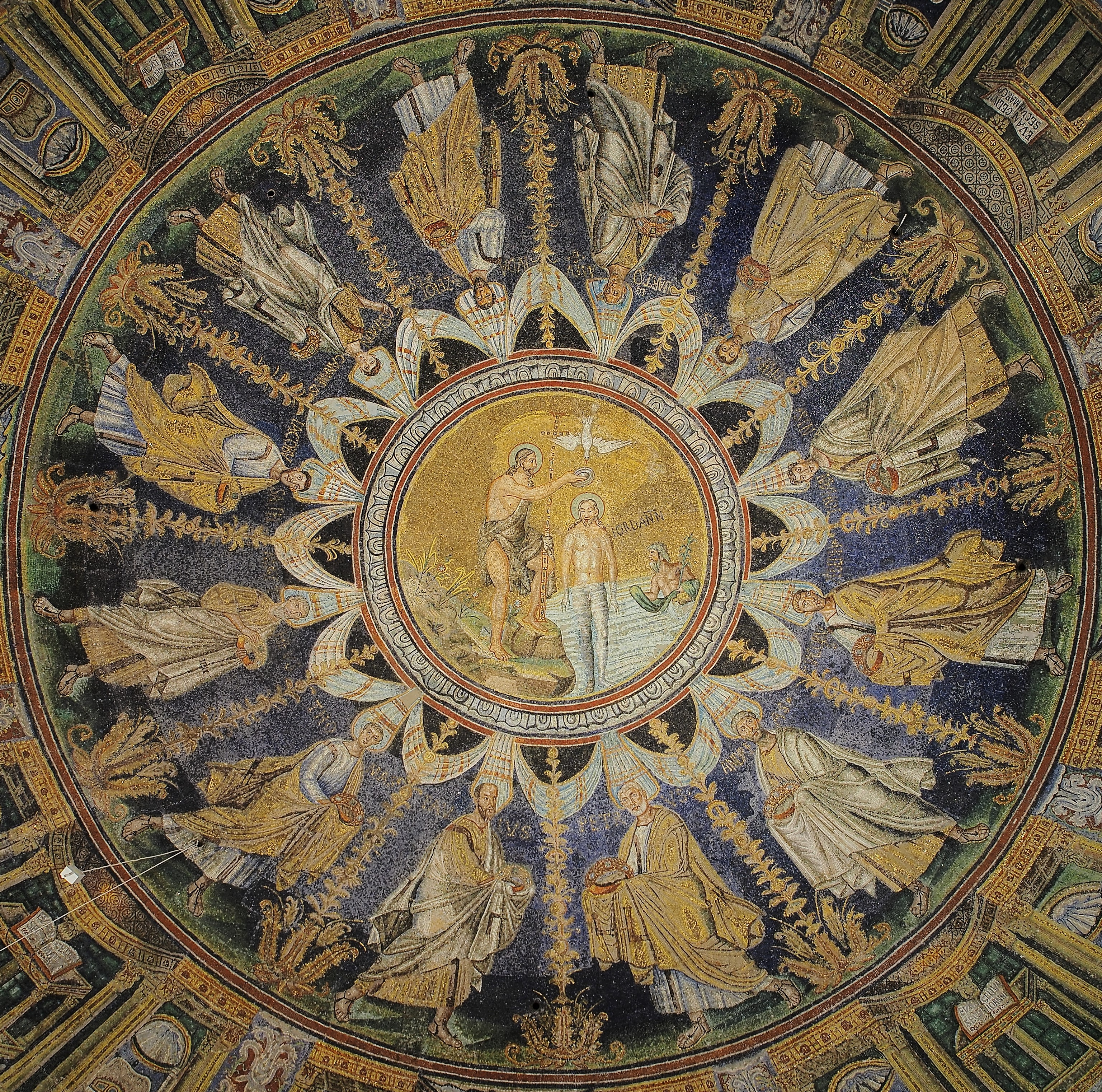 The ceiling mosaic in the Baptistry of Neon. Ravenna, Italy. Built around 6th century A.D. UNESCO World heritage site. This photograph was taken with an Olympus E-P5